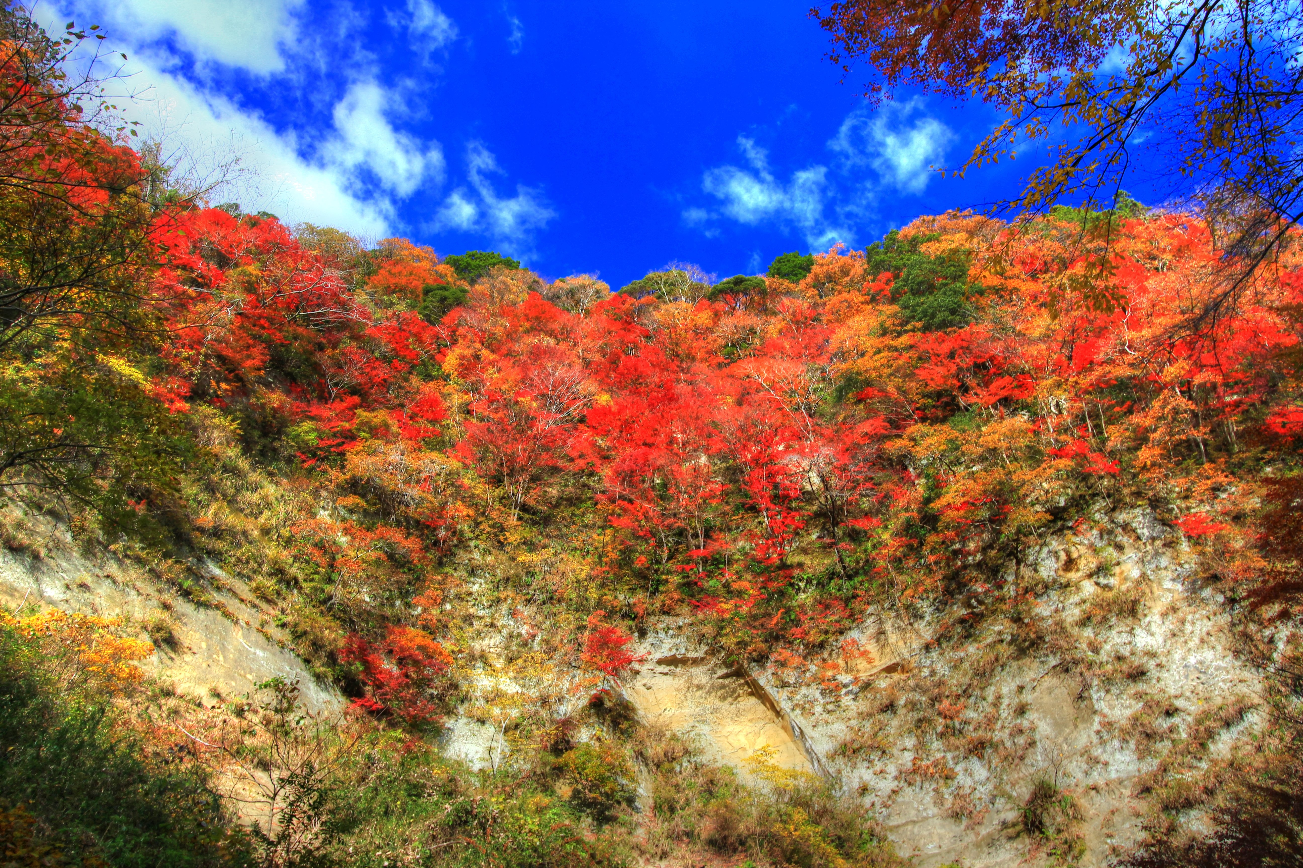 梅ヶ瀬渓谷 Canon EOS 60D